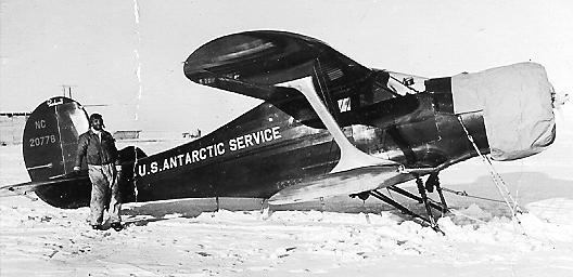 Beechcraft 5PCLB (Staggerwing)D-17-a SN:357 NC20778 Theodore A. Petras, chief pilot - United States Antarctic Service Expedition 1939-1941